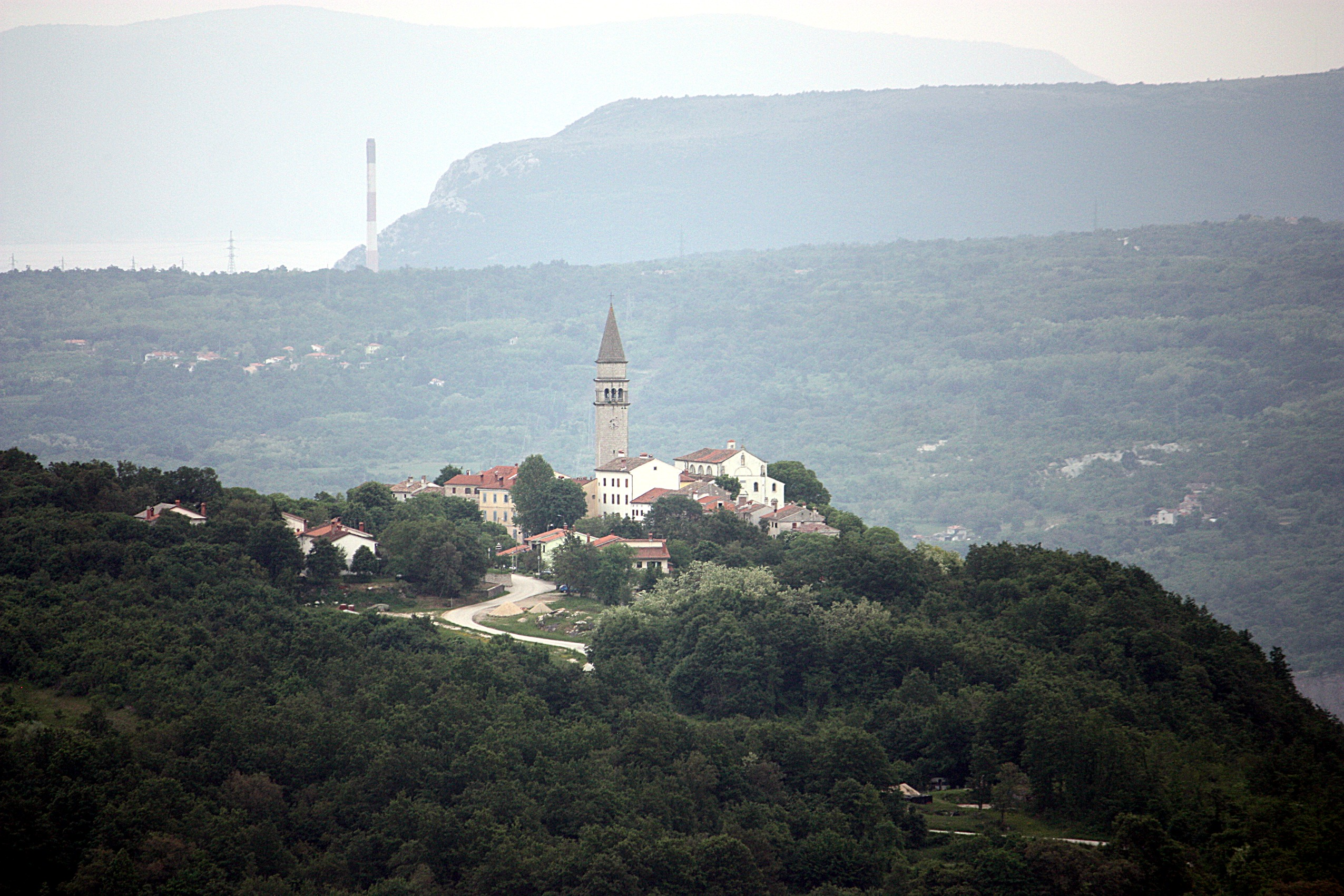 Gračišće, view to Pićan